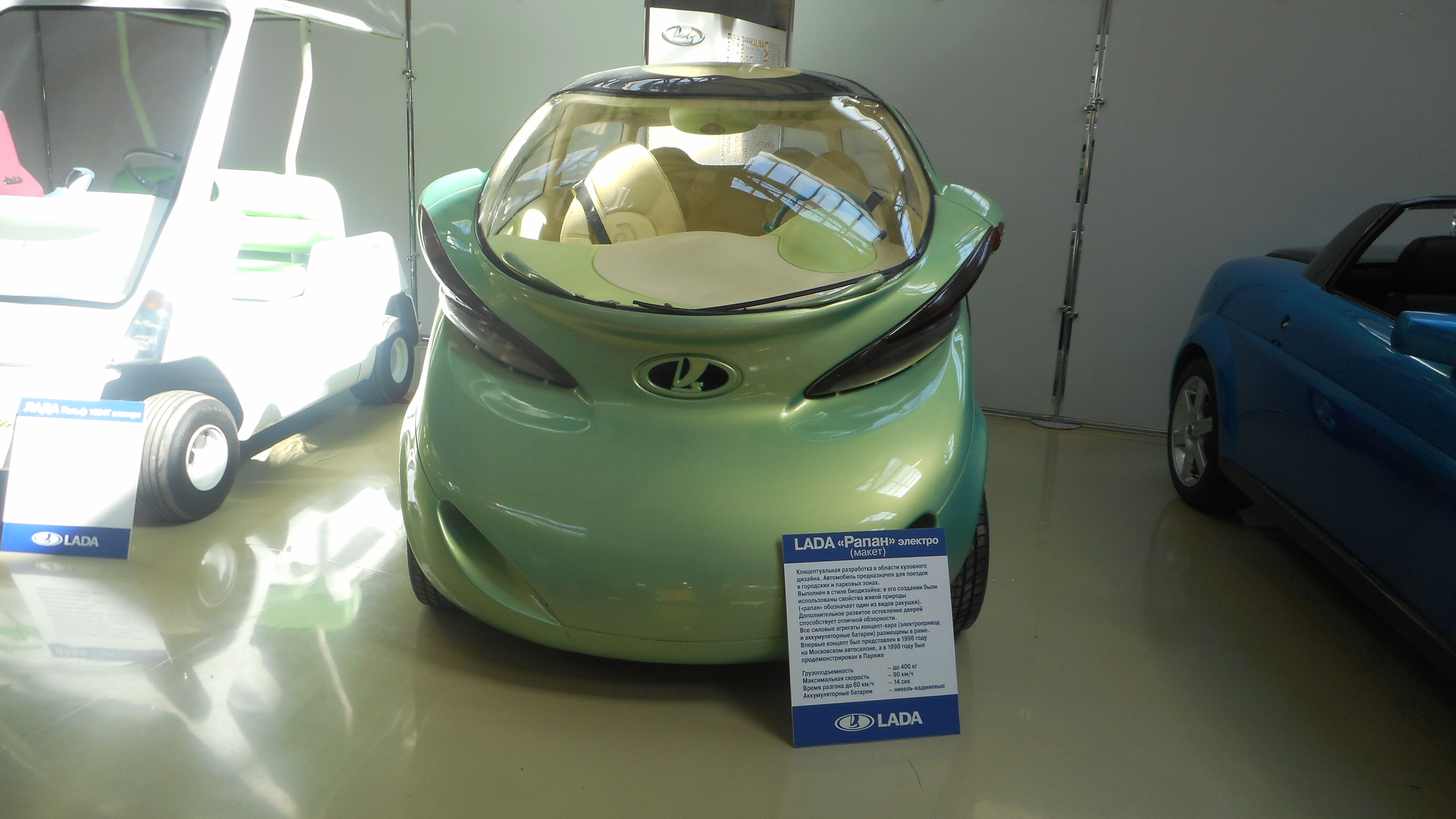 lada rapan electro